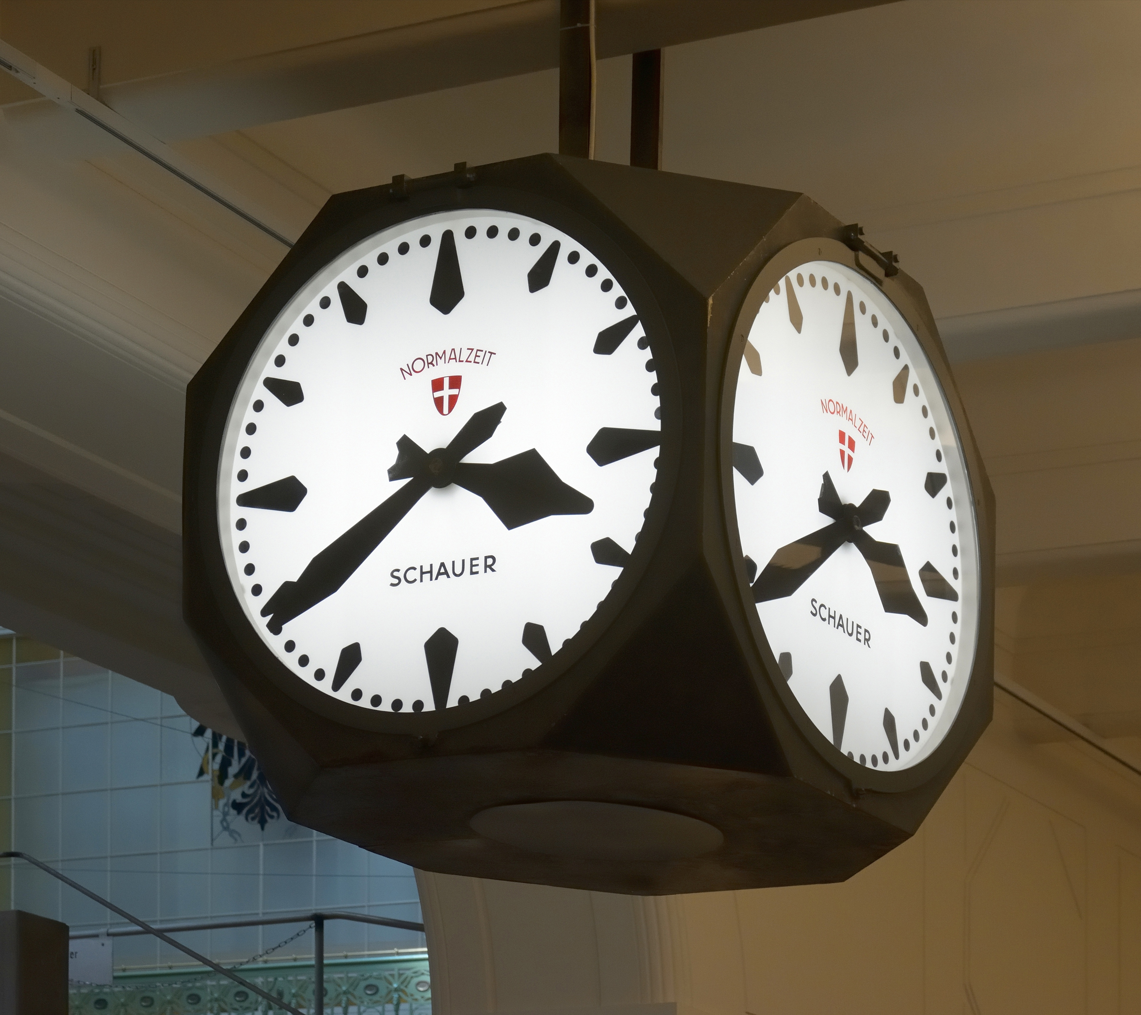 Wiener Würfeluhr as exposed by the Technisches Museum Wien. Clearly visible the backlit Display.